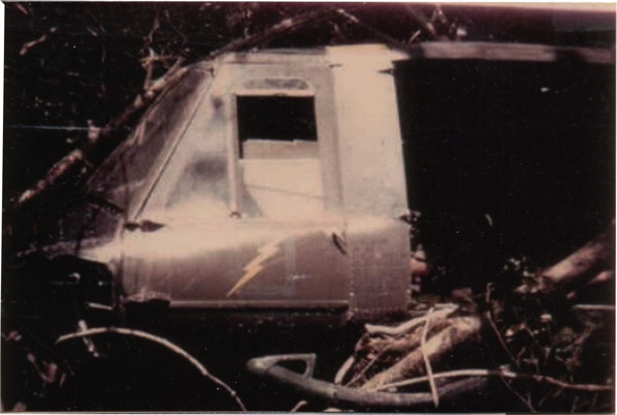 April 19, 1968. This helicopter crashed inserting a LRP team on Signal Hill.